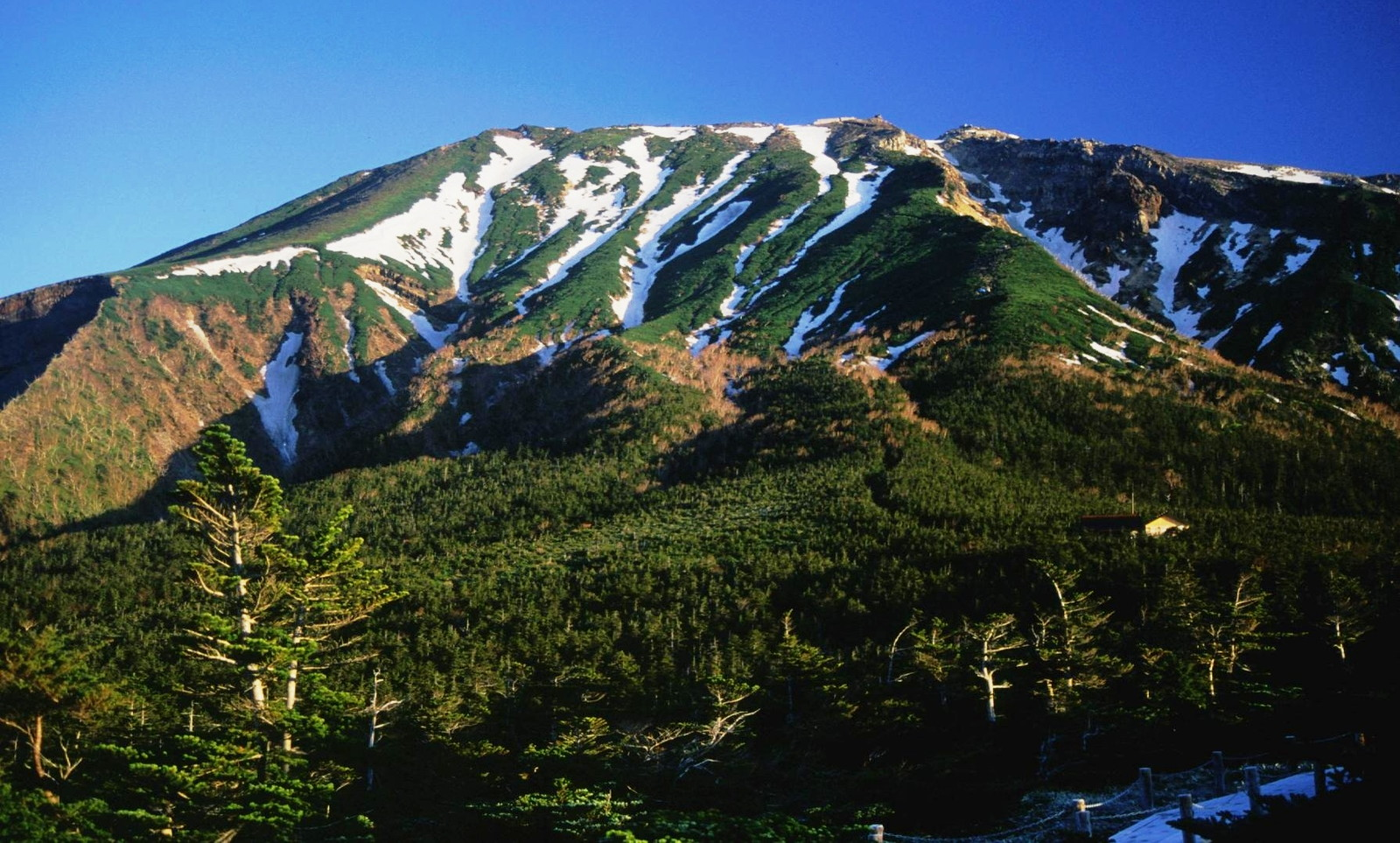 Mount Ontake from Tanohara